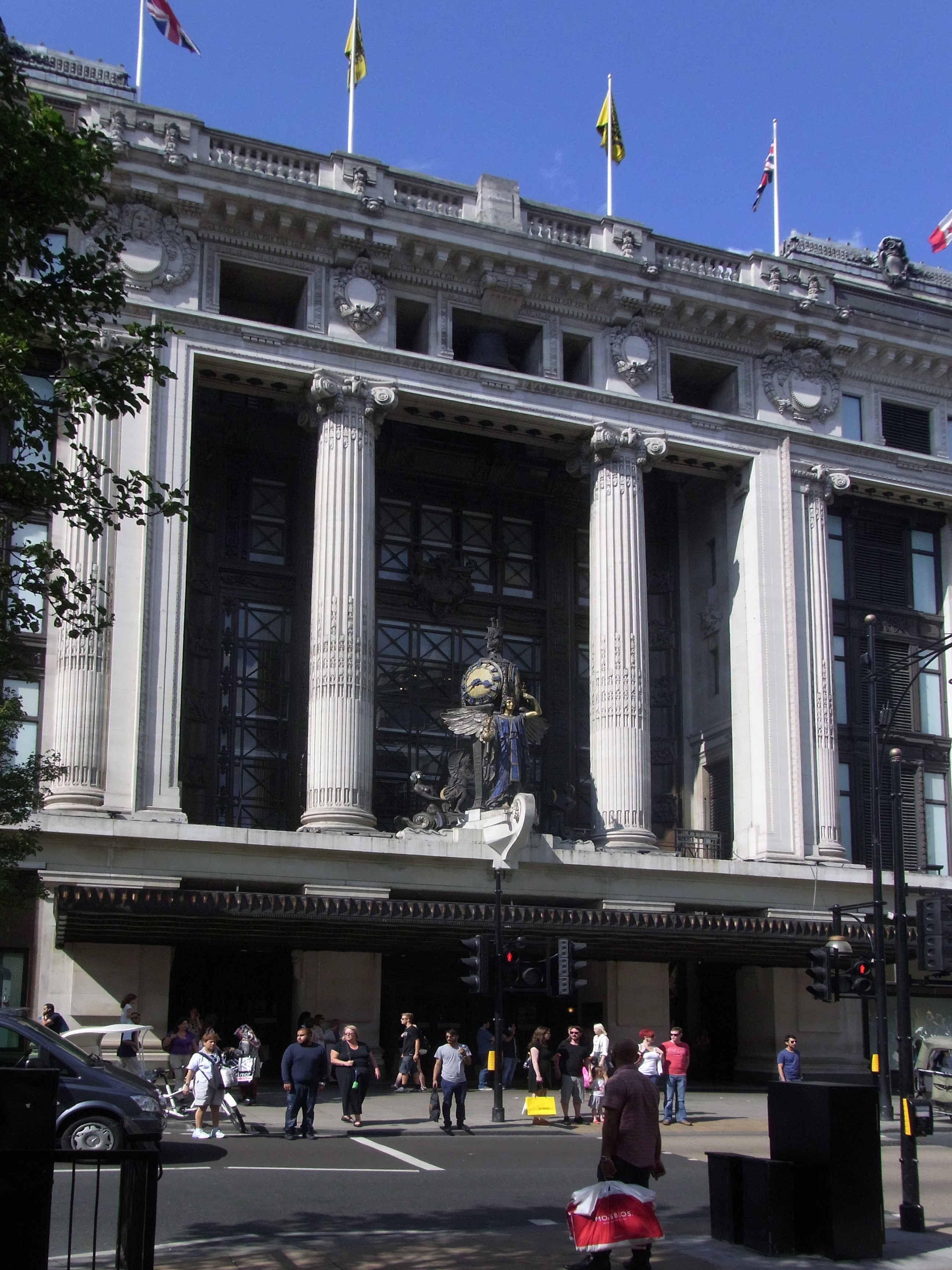 Selfridges, Oxford Street